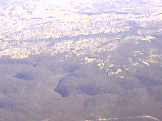 Aerial photograph (taken with a dodgy mobile phone) of the suburb of Kentlyn, NSW. The green line running across the photo in the top half is Smiths Creek Reserve, which separates the suburbs of Campbelltown (top) from Ruse. Kentlyn is the less densely populated area immediately below Ruse. Also visible is the Georges River and Holsworthy army base.